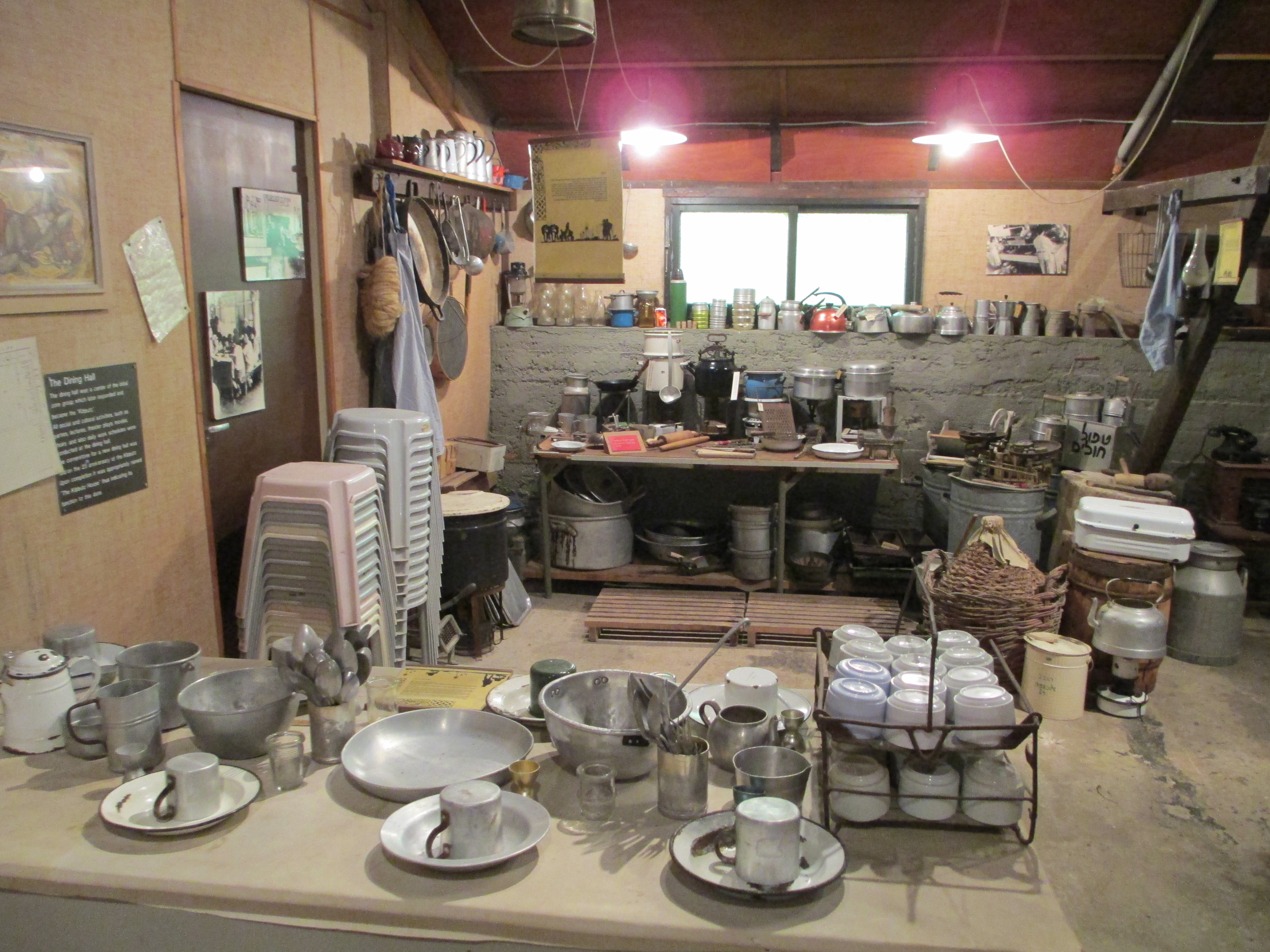 Little Mizra Museum